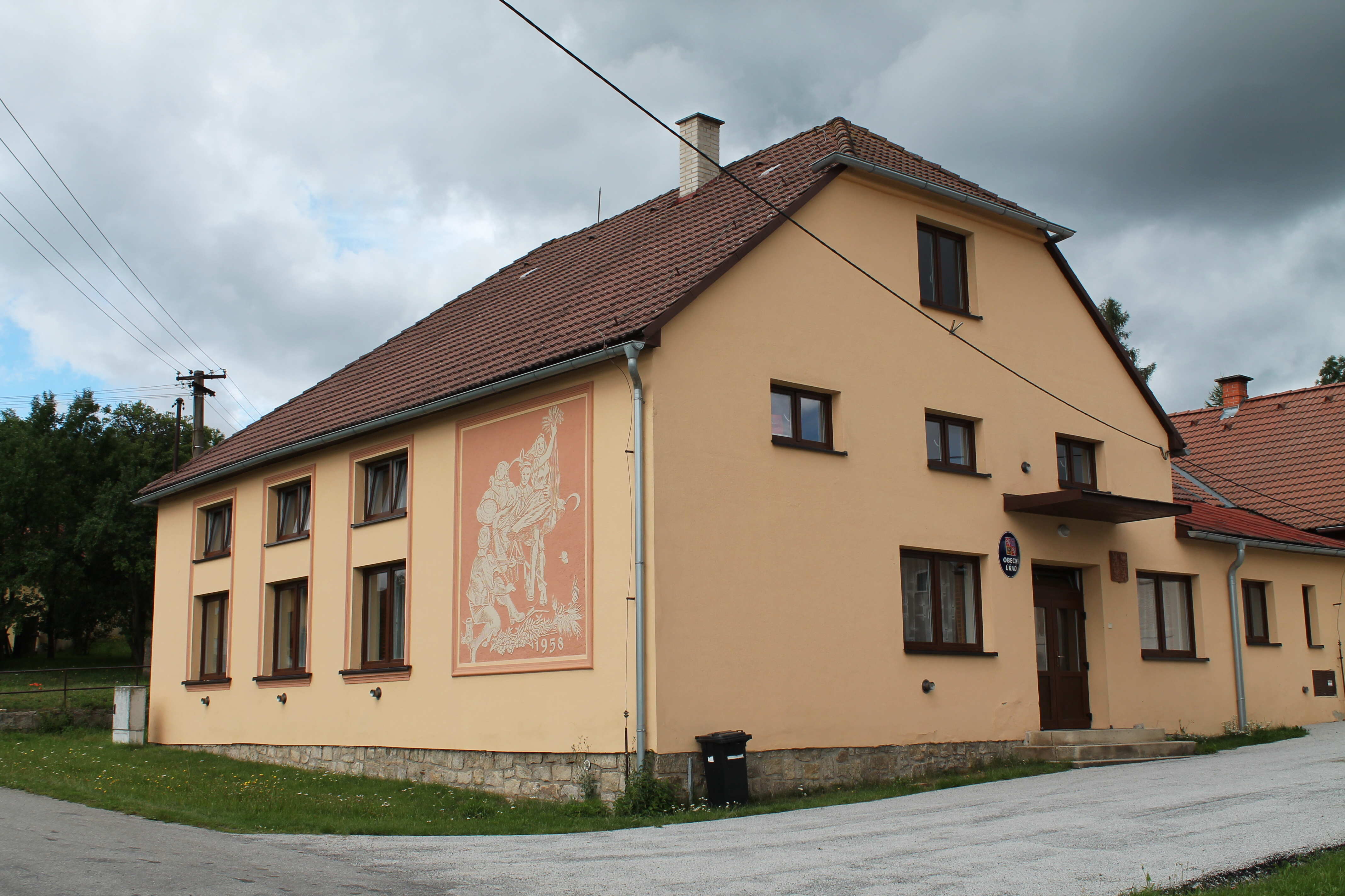 Municipal office, Vanov, Jihlava District, Czech Republic